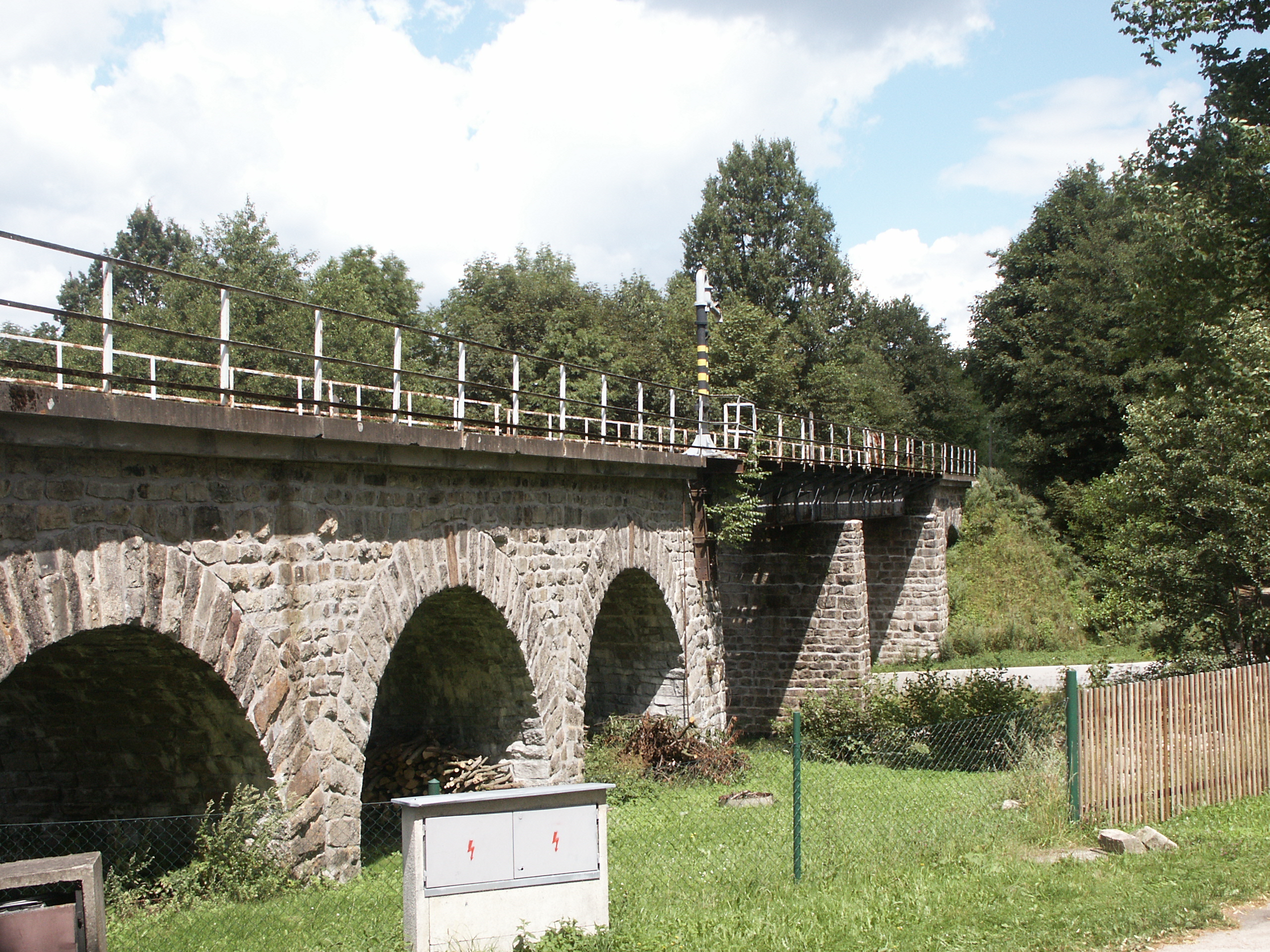 Railway bridge over Dračice in Albeř